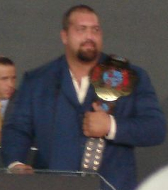 Big Show at the WrestleMania 23 Fan Rally press conference.DSC02395